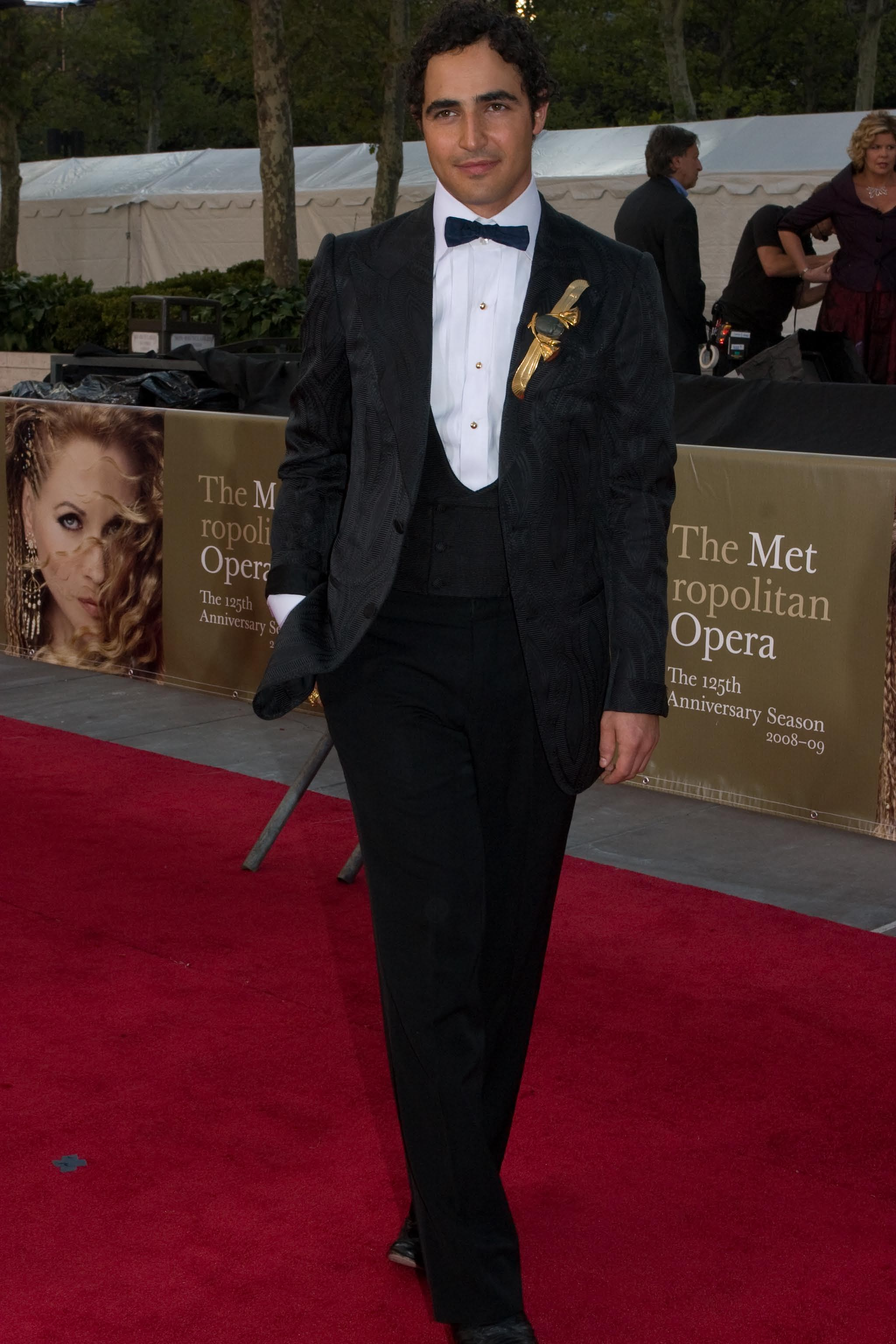 Designer Zac Posen, at the Metropolitan Opera opening in 2008. © Rubenstein, photographer Martyna Borkowski